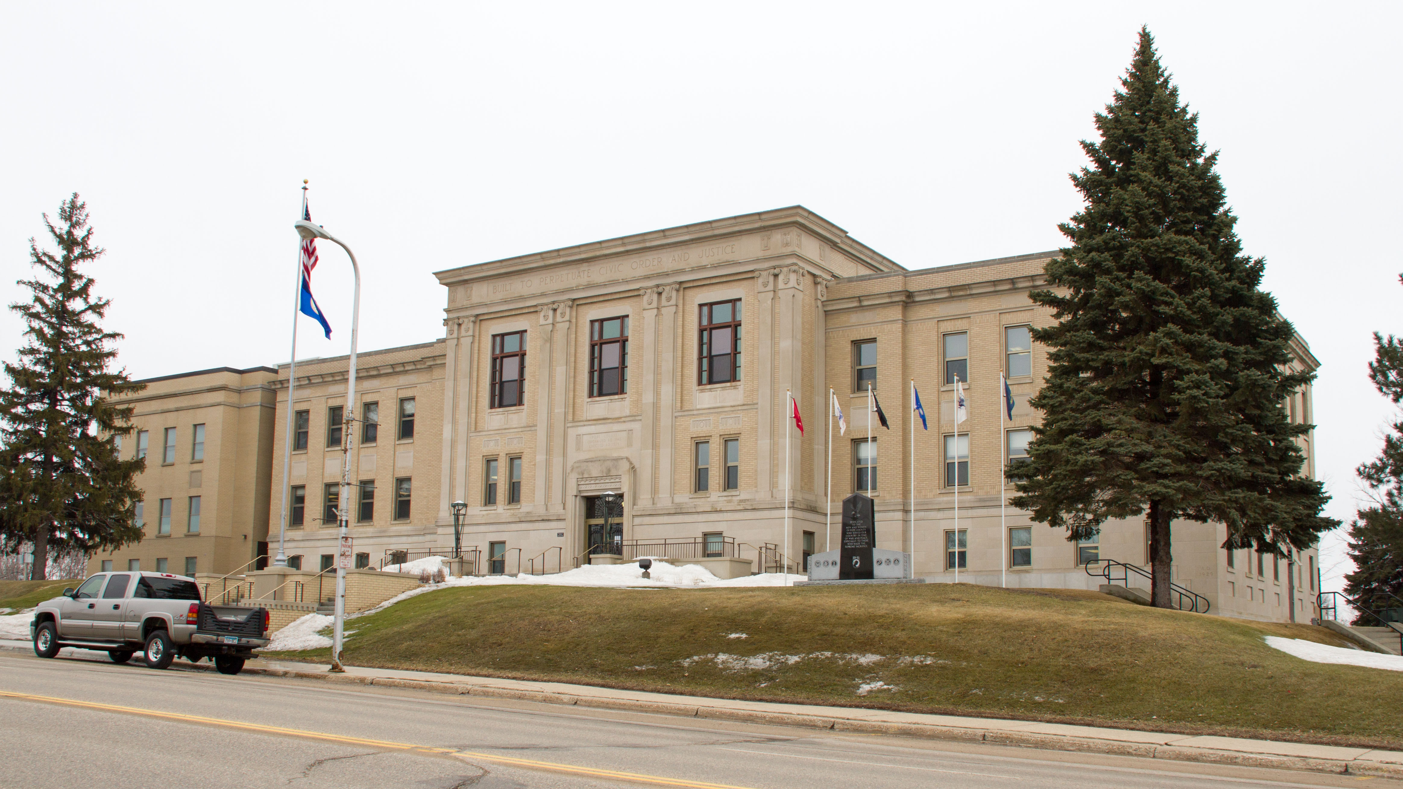 Pope County Courthouse, Glenwood, Minnesota, USA.